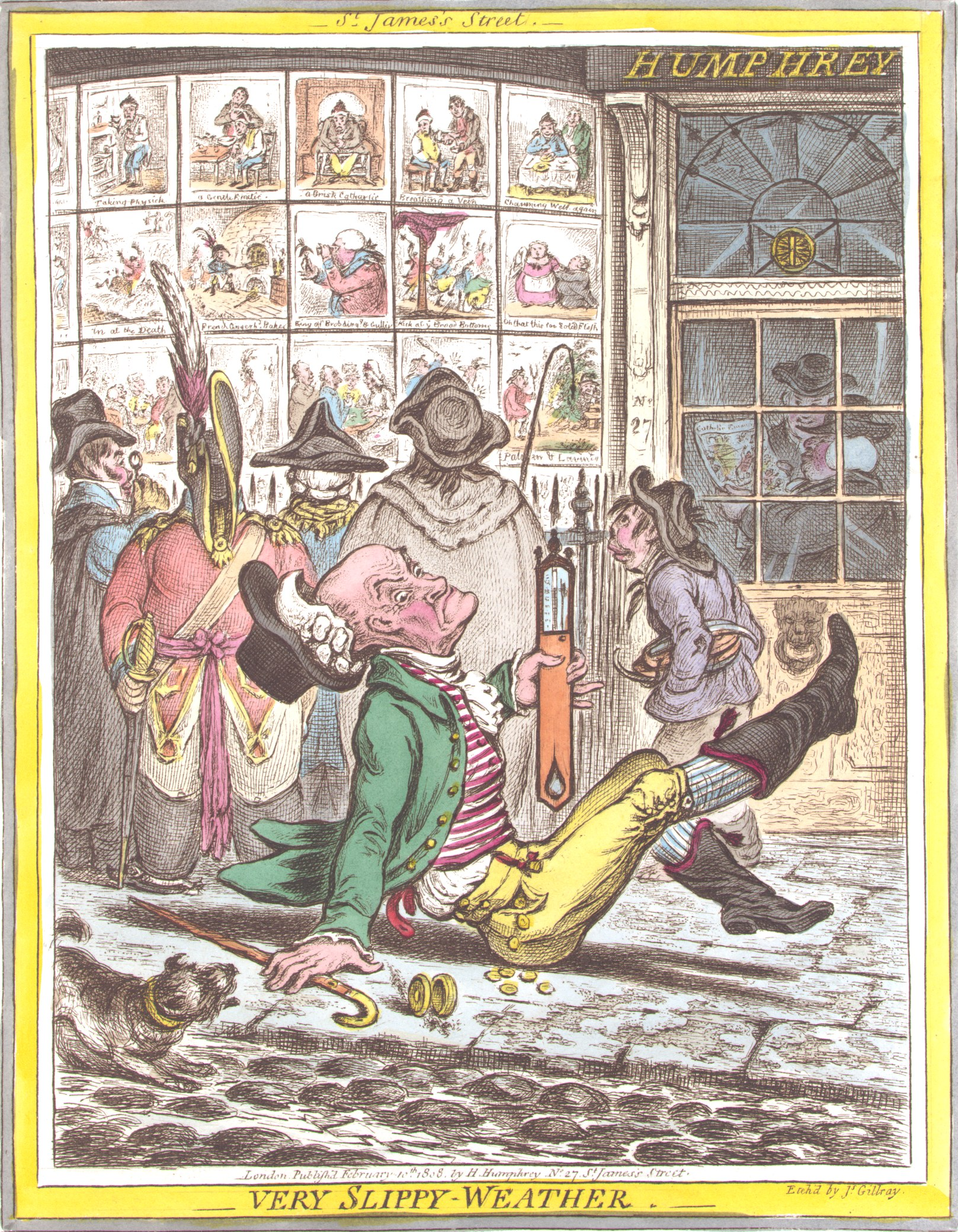 Very slippy-weather / etch'd by Js. Gillray. SUMMARY: Cartoon shows an elderly man who has slipped and fallen on the sidewalk outside Humphrey's printing establishment at No. 27 St. James's Street, London. He is holding a thermometer which he manages keep upright, behind him are five individuals looking at caricatures printed by Humphrey that are on display in the shop windows. MEDIUM: 1 print : etching, hand-colored. CREATED/PUBLISHED: London : Publish'd by H. Humphrey, 1808 February 10th.